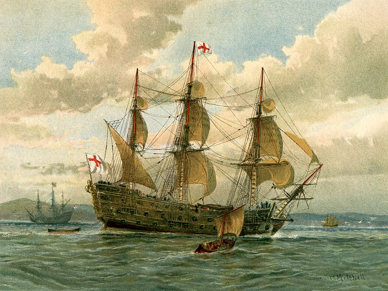 Watercolour of a battle ship by William Mitchell (ca. 1650).